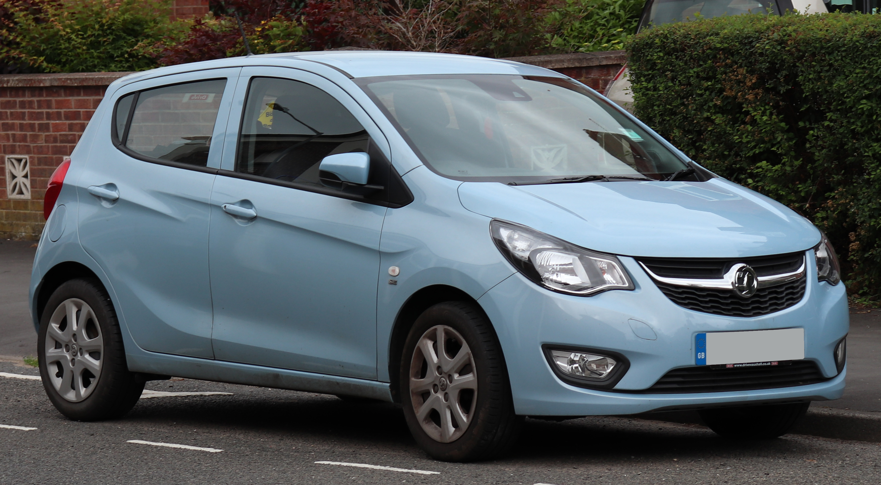 2016 Vauxhall Viva SE 1.0 Taken in Warwick